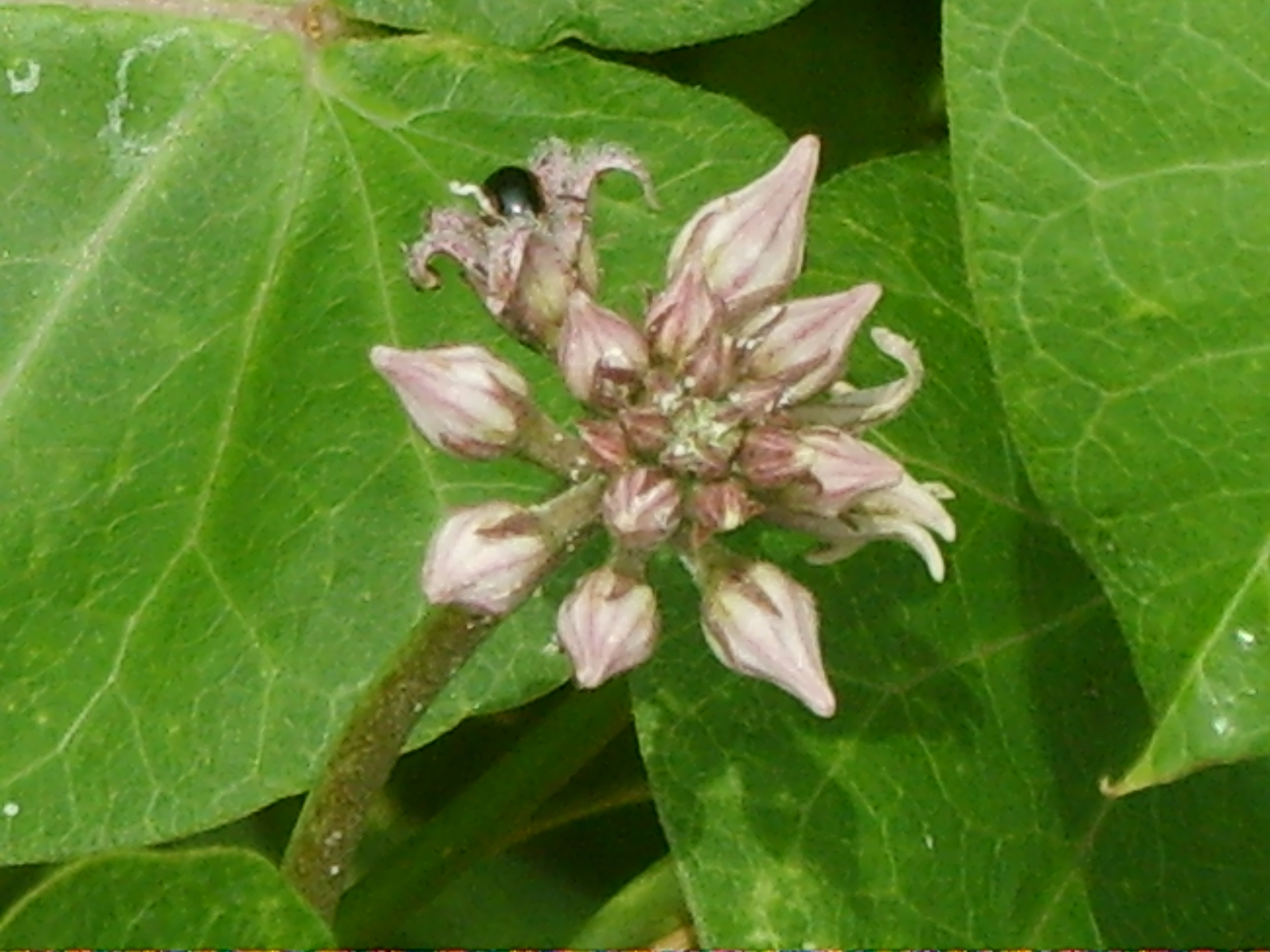 Metaplexis japonica in Incheon, Korea